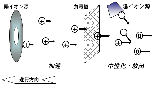 Figure explaining, in Japanese, the basic principles of a simple ion thruster.